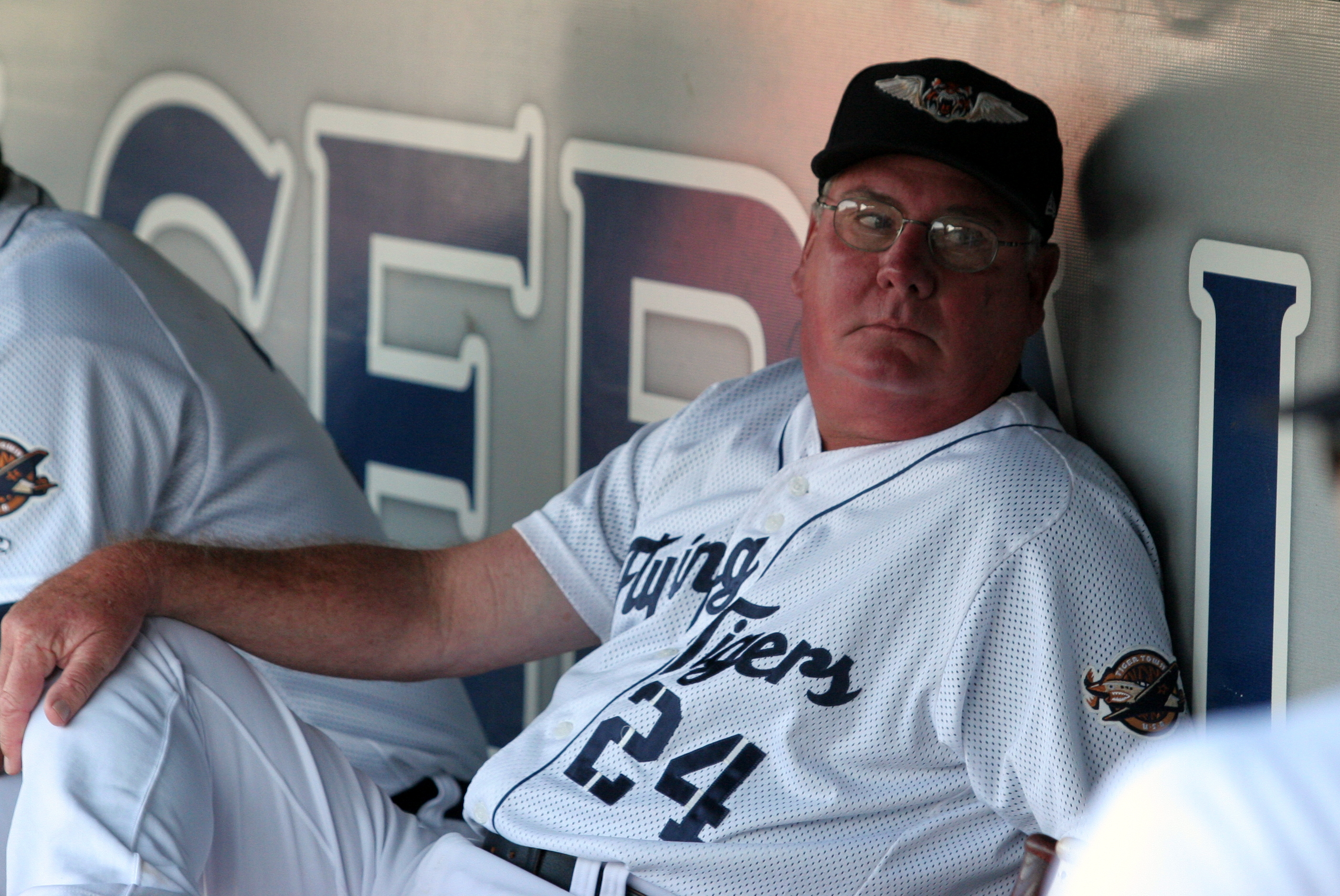 Manager Dave Huppert of the Lakeland Flying Tigers sits in the dugout before a game in 2012.